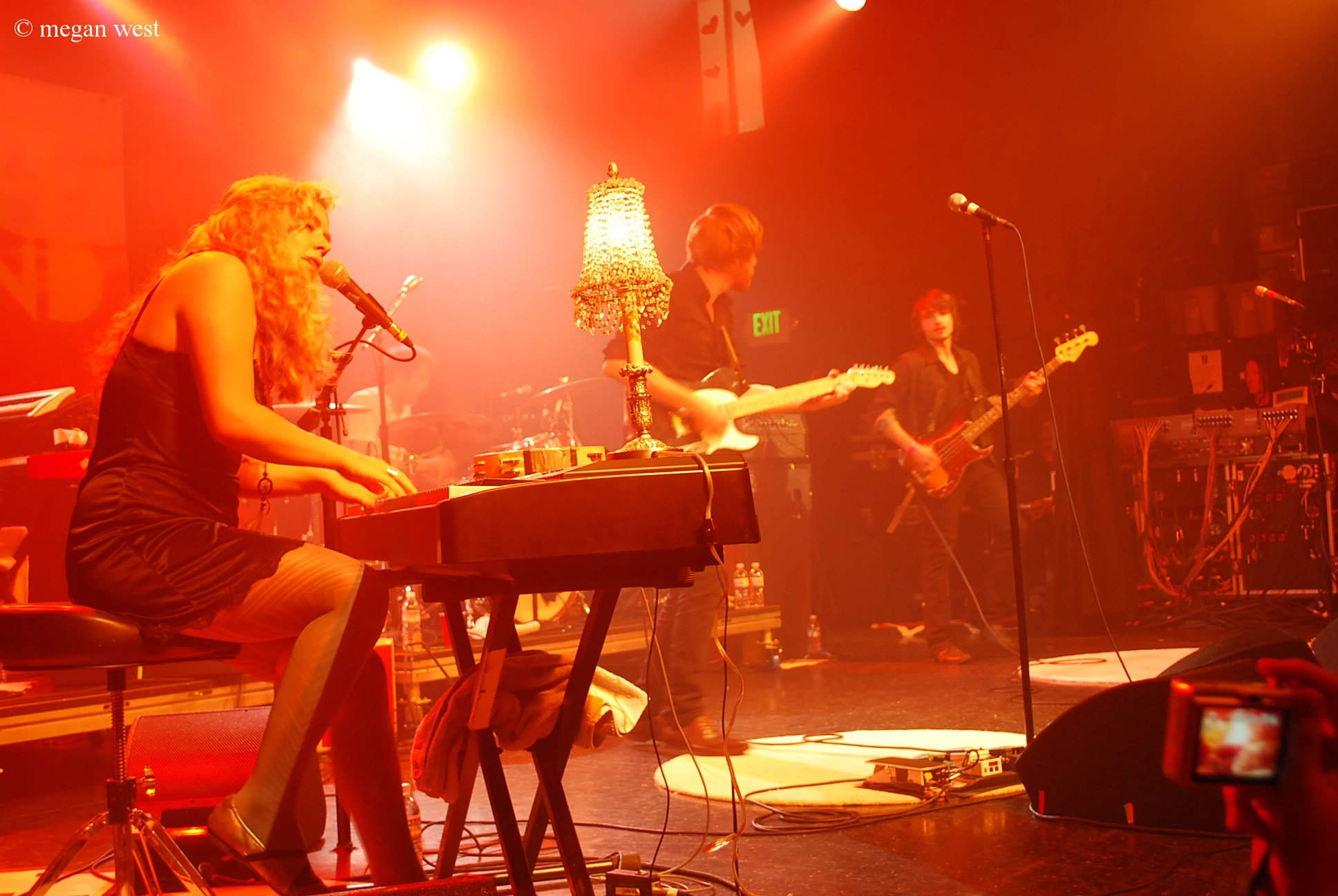 This is a photo of the band the Hush Sound.